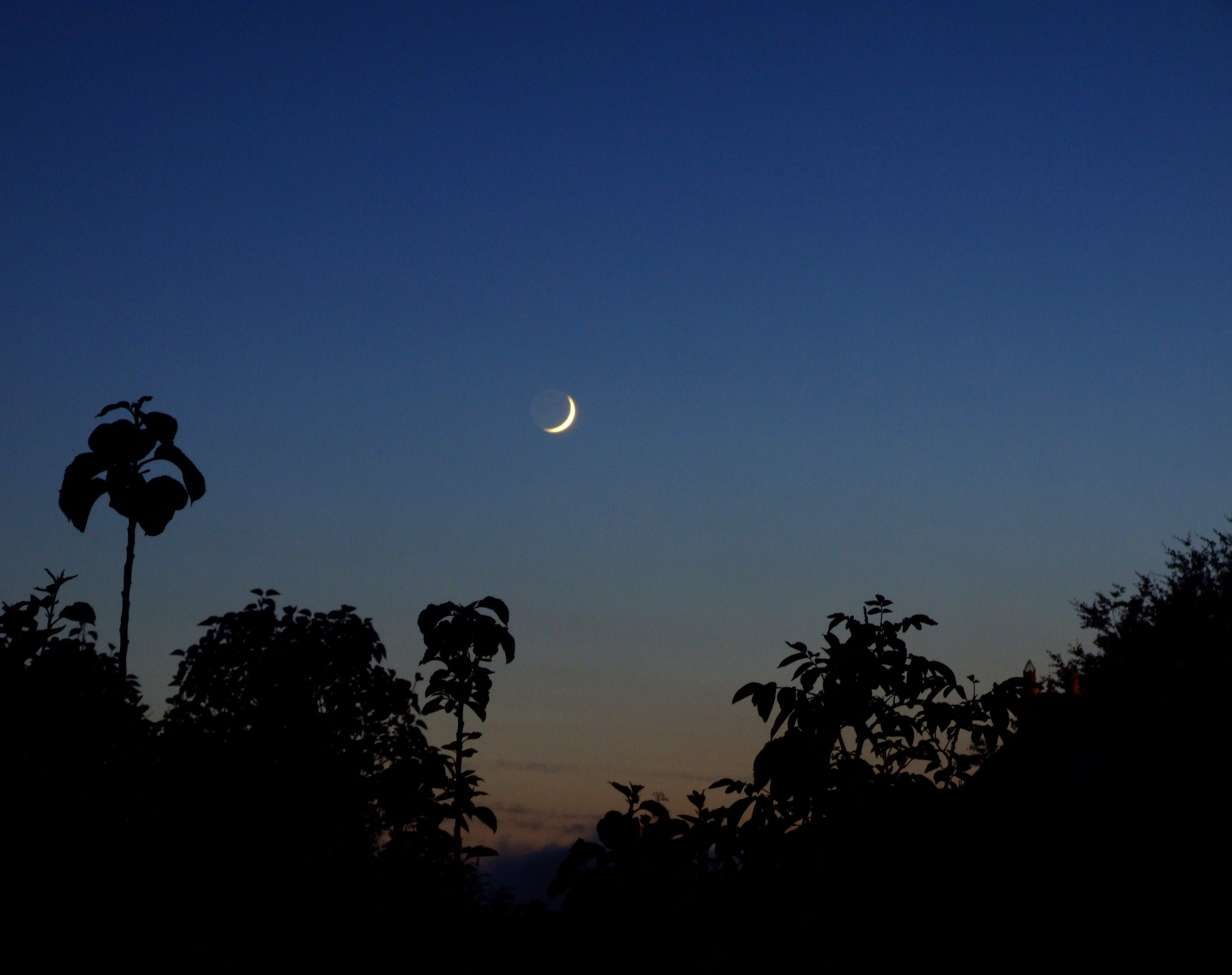 A quick shot from the bedroom window of the crescent moon.